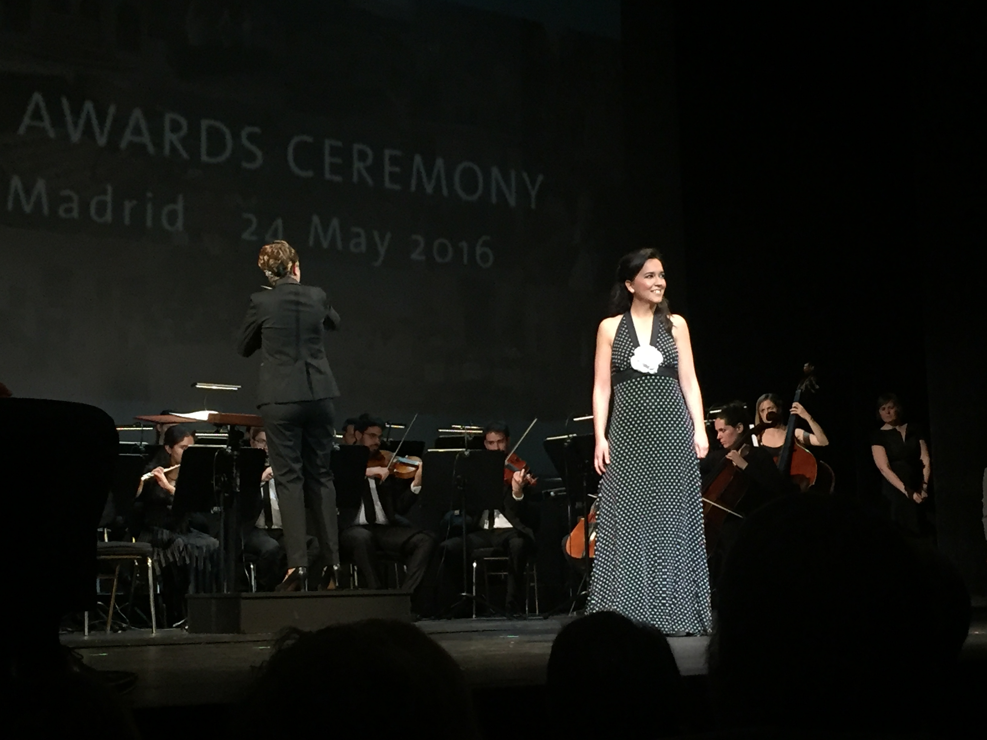 Auxiliadora Toledano during Europa Nostra Heritage Awards 2016 in Madrid